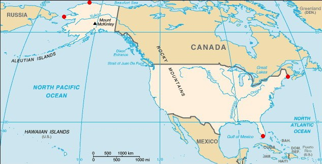 CIA World Factbook map of the United States -- dots added to show points.